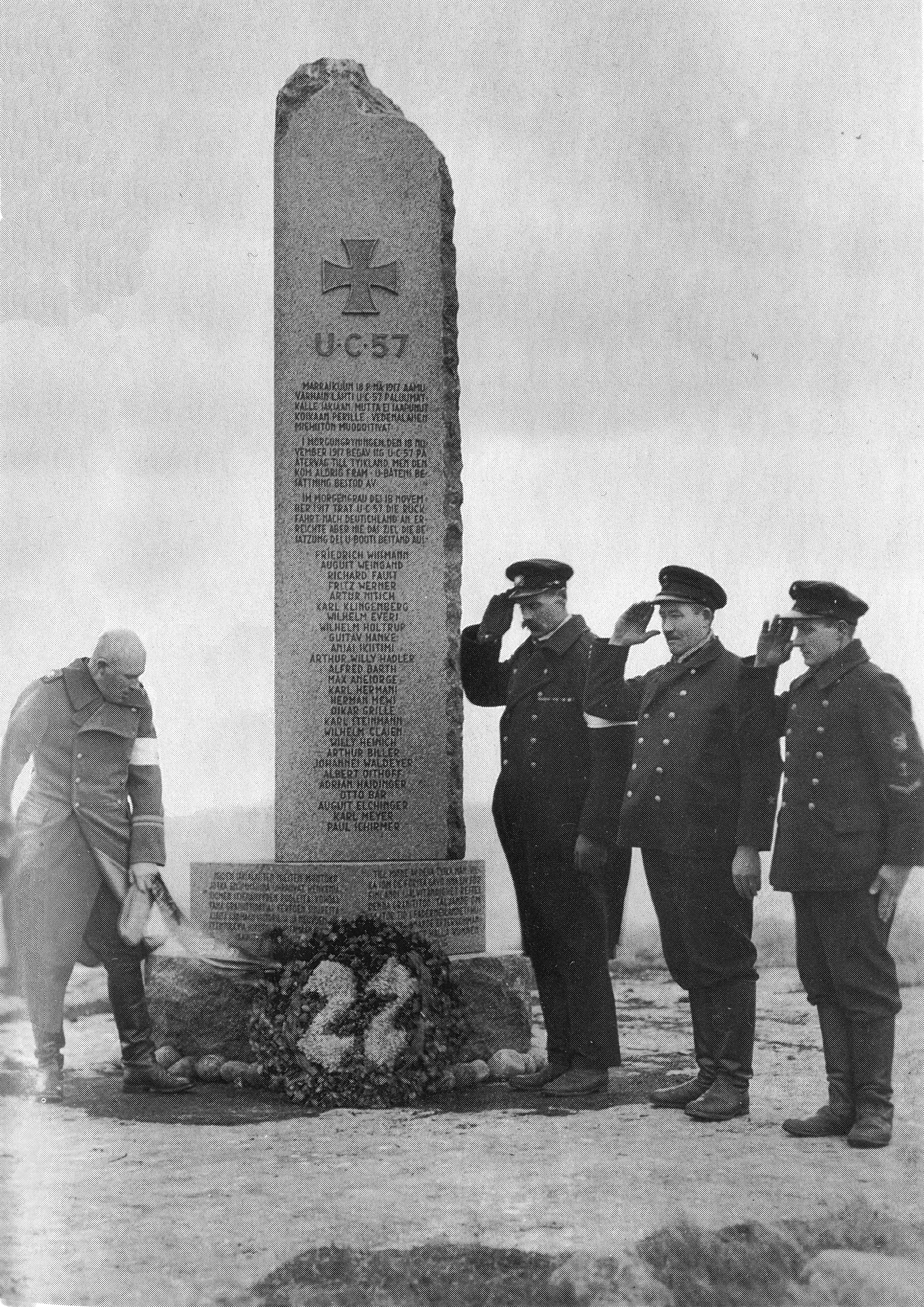 November 17, 1917, Submarine UC-57 brought the first jägers to Hamnskär, cirka 30 km from Loviisa. The submarine sank during its return to Germany and took 27 men to the bottom. UC57:s memorial. Major Nordström lay the Jäger association's wreath.